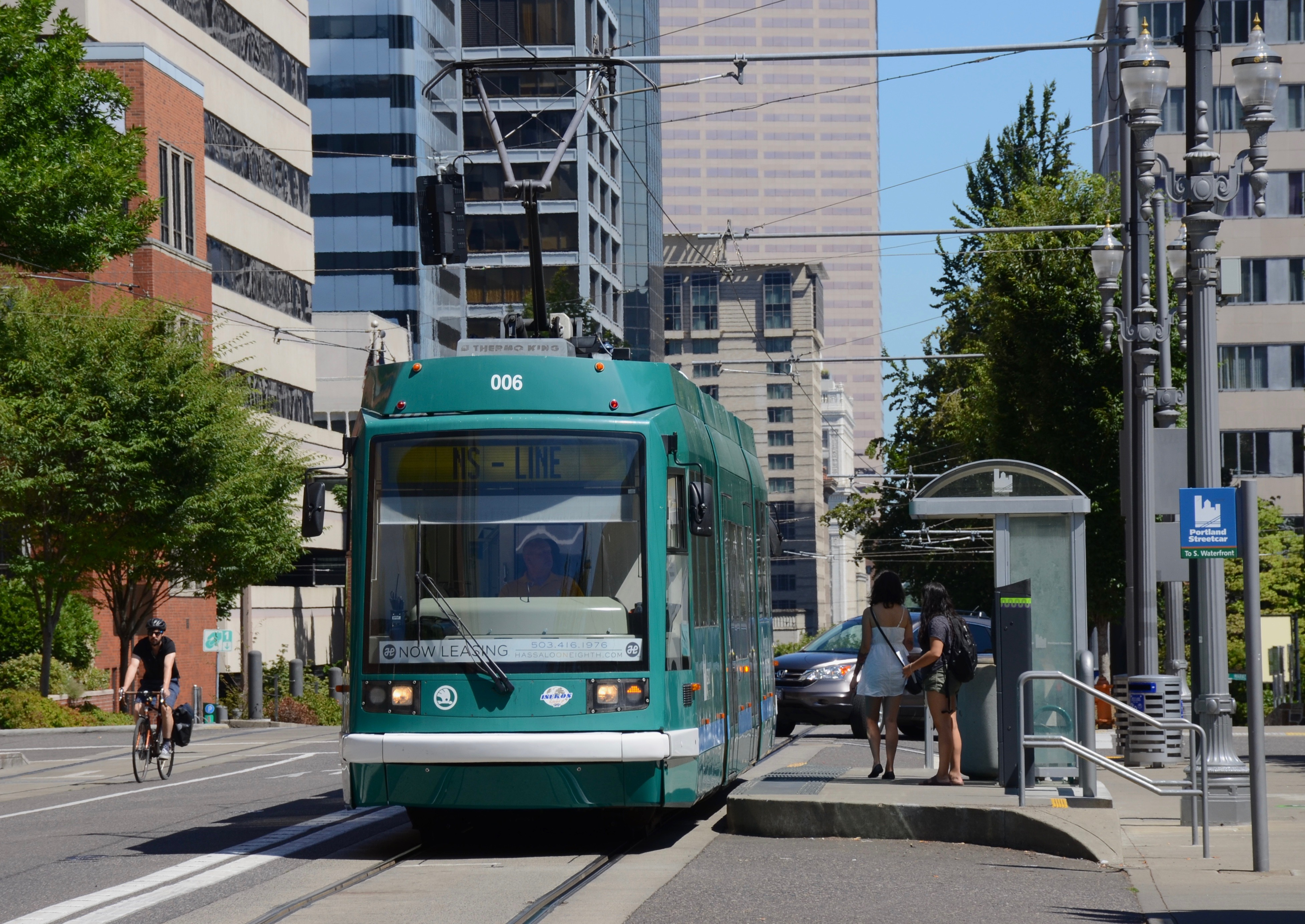 Car 010 of the Portland Streetcar system, a 2002 Škoda-Inekon 10T, at the 5th & Montgomery stop (on S.W. 5th Ave. between Mill St. and Montgomery St.). Note the logos of both Škoda and Inekon on the front.